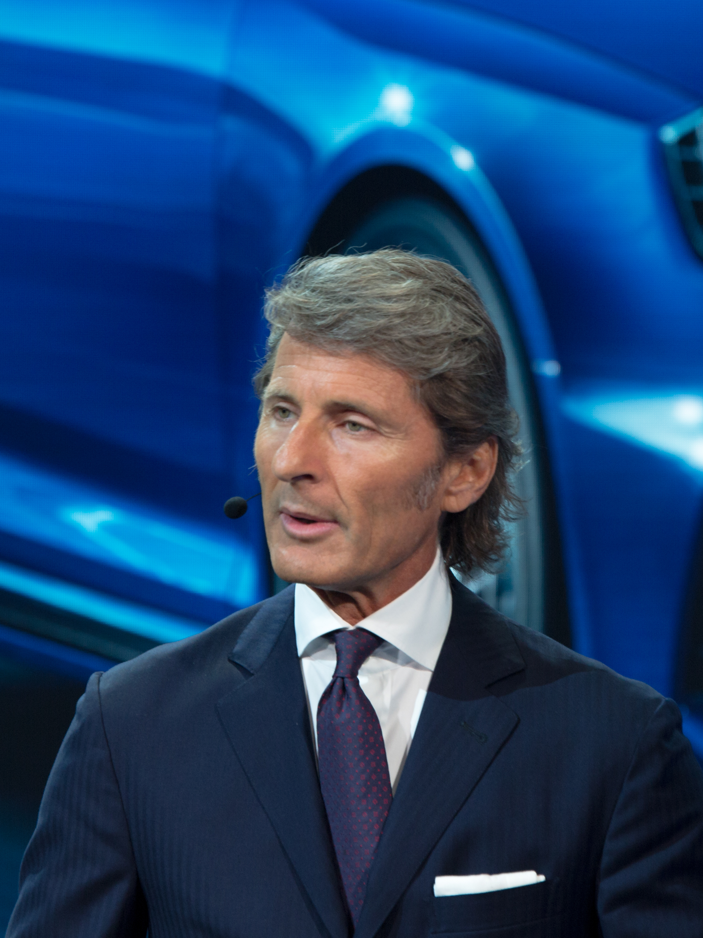 Stephan Winkelmann at Audi Sport press conference, IAA 2017